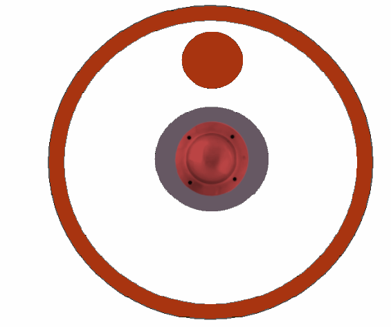 Shield pattern o.t. Abrincateni as 10th of the 18 pseudocomitatenses units in the Magister Peditum's infantry roster, Notitia Dignitatum , 5th century